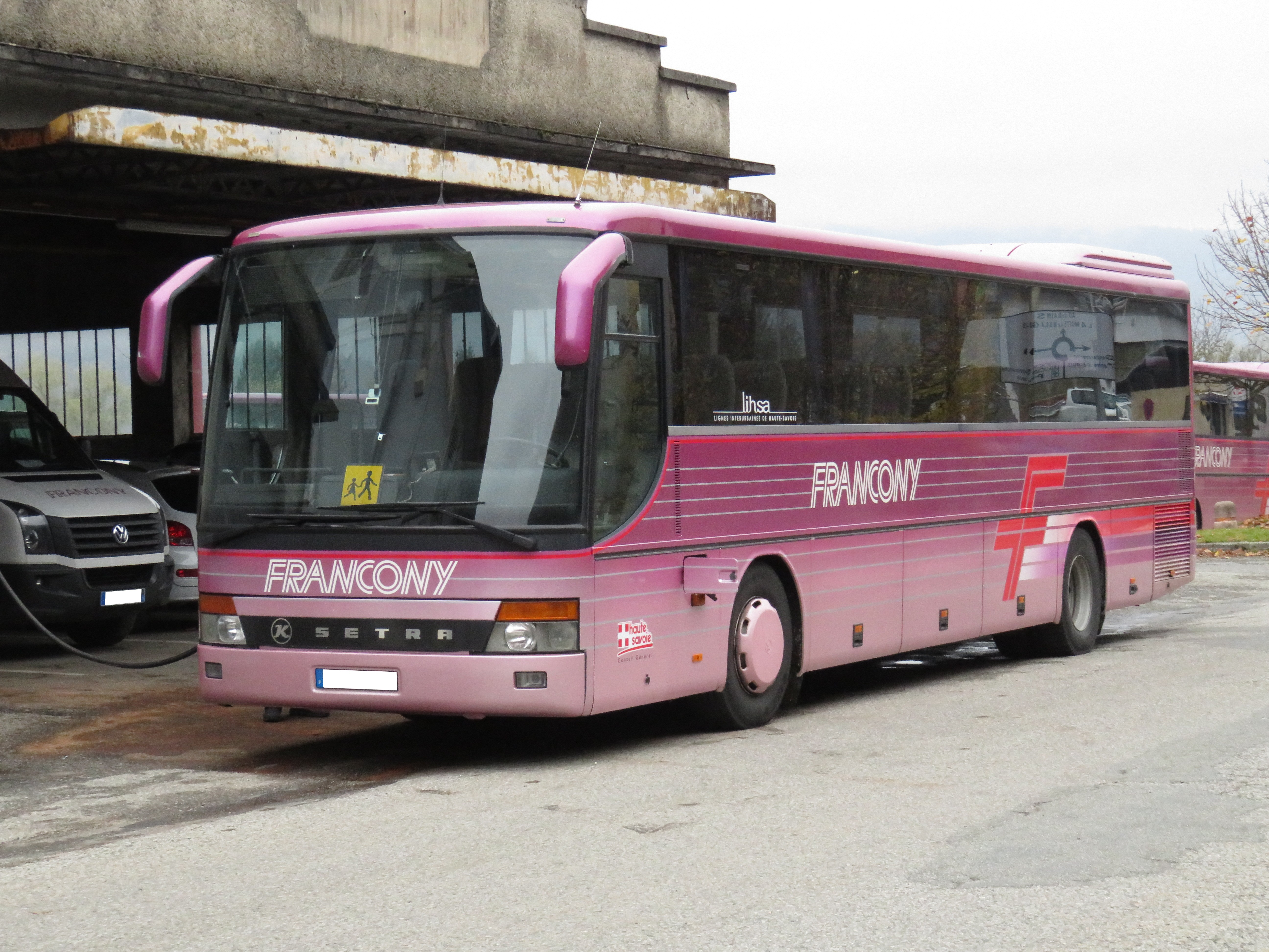 A Setra S 315 GT-HD (Francony) in the Avenue Denis Therme (Le Châtelard, France) on November 10, 2017.